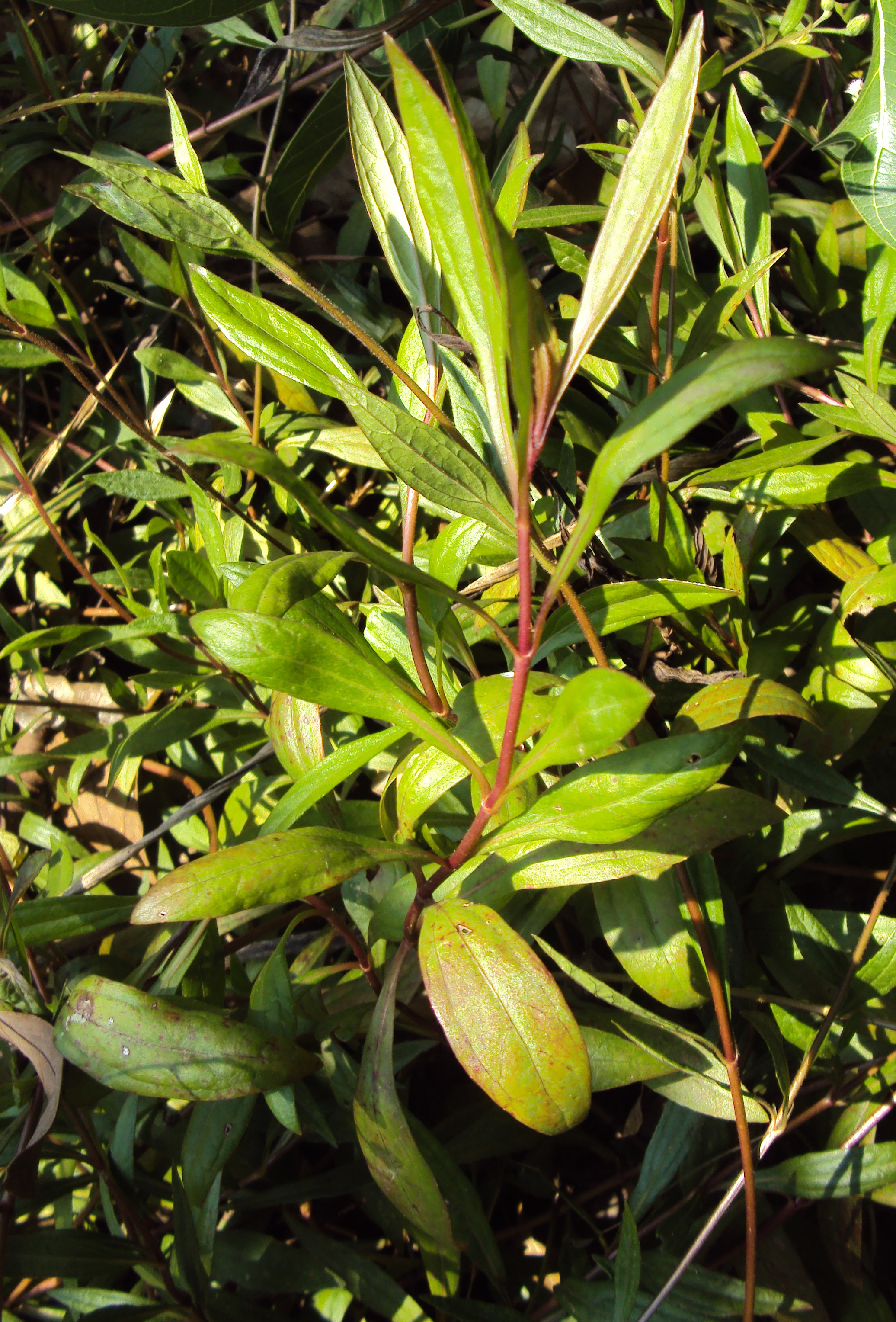 Eupatorium triplinerve